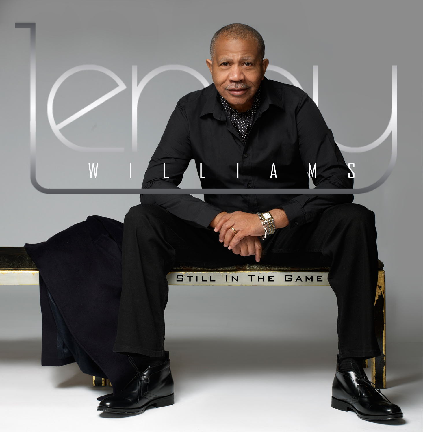 Promotional photo for Lenny Williams.